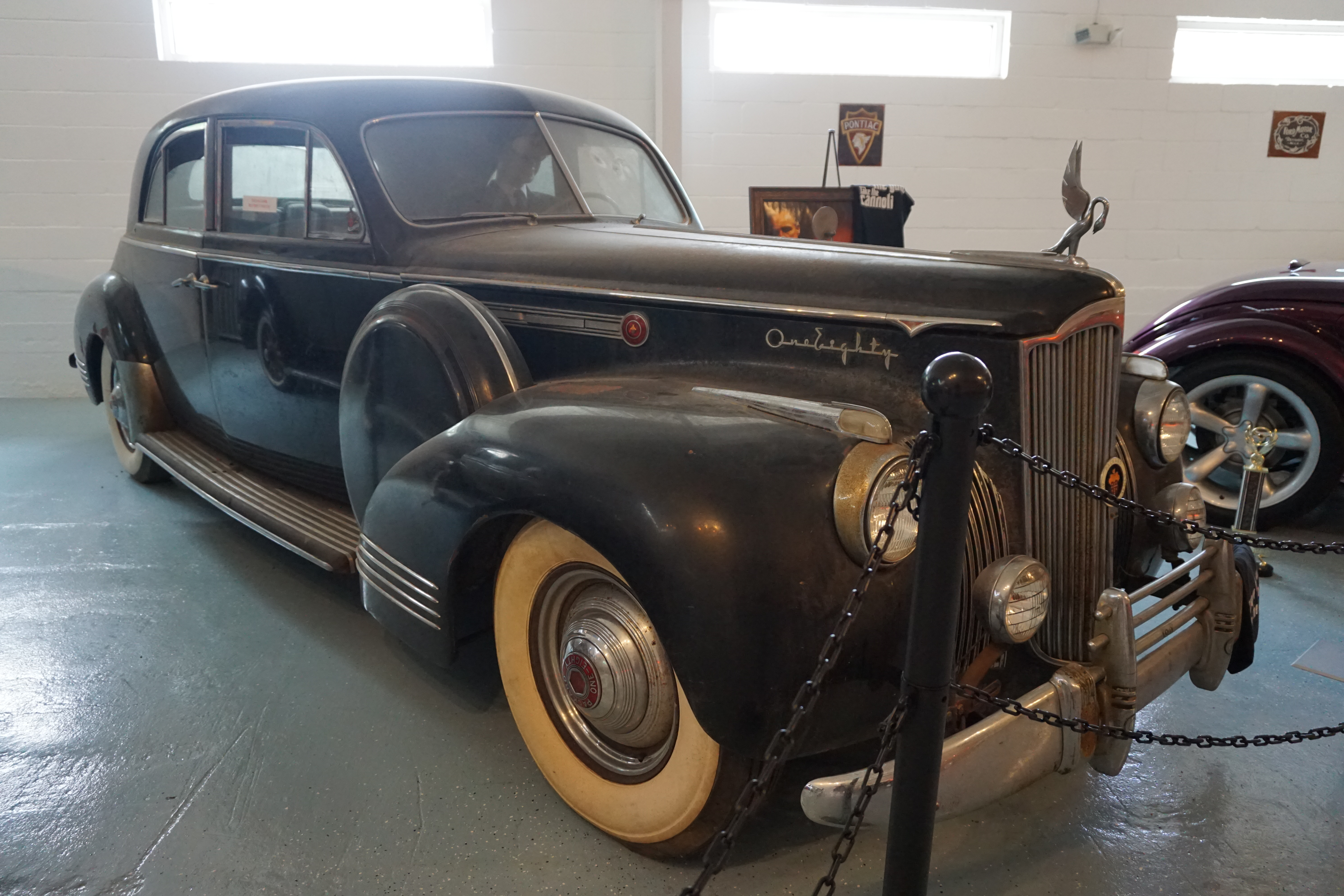 A 1941 Packard Custom Super Eight One-Eighty featured in the film The Godfather at the Vintage Grill & Car Museum in Weatherford, Texas (United States).